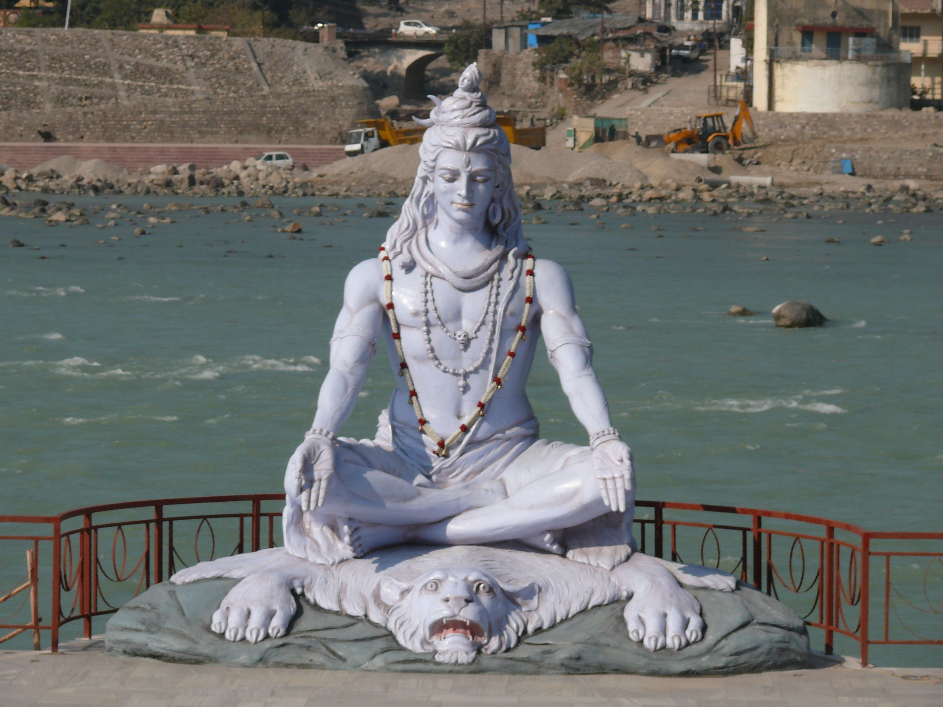 Now memory Shiva statue near Paramarth Niketan